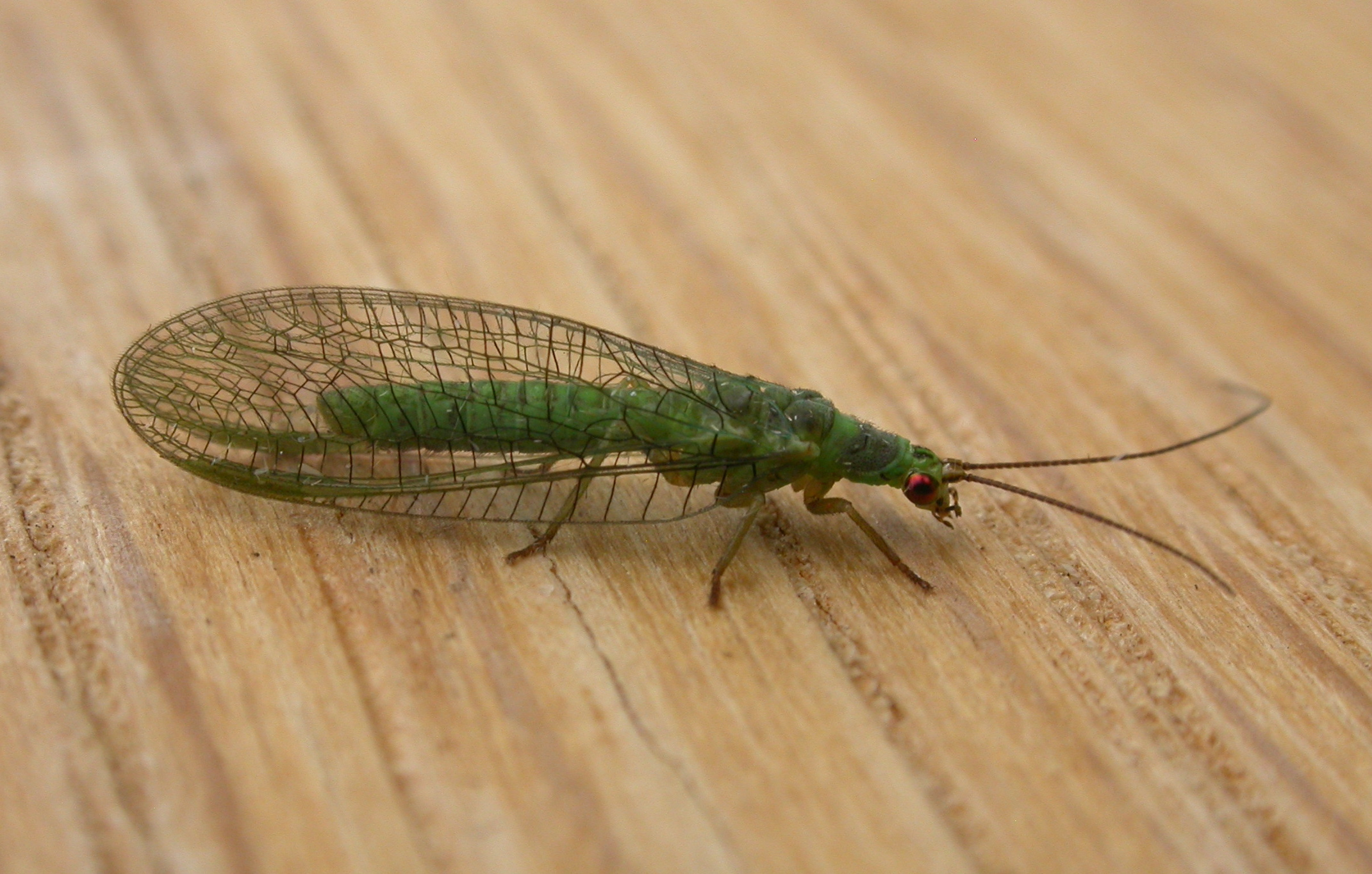 Chrysopa signata Schneider, to MV light, Aranda, ACT, 8/9 January 2009